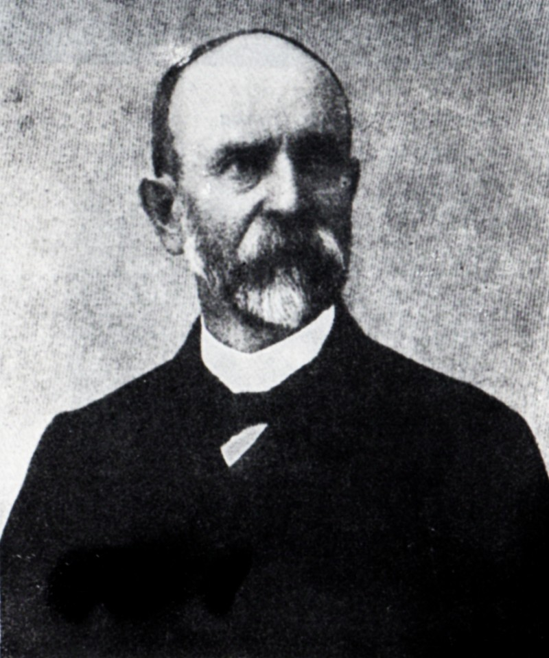 John Henry House